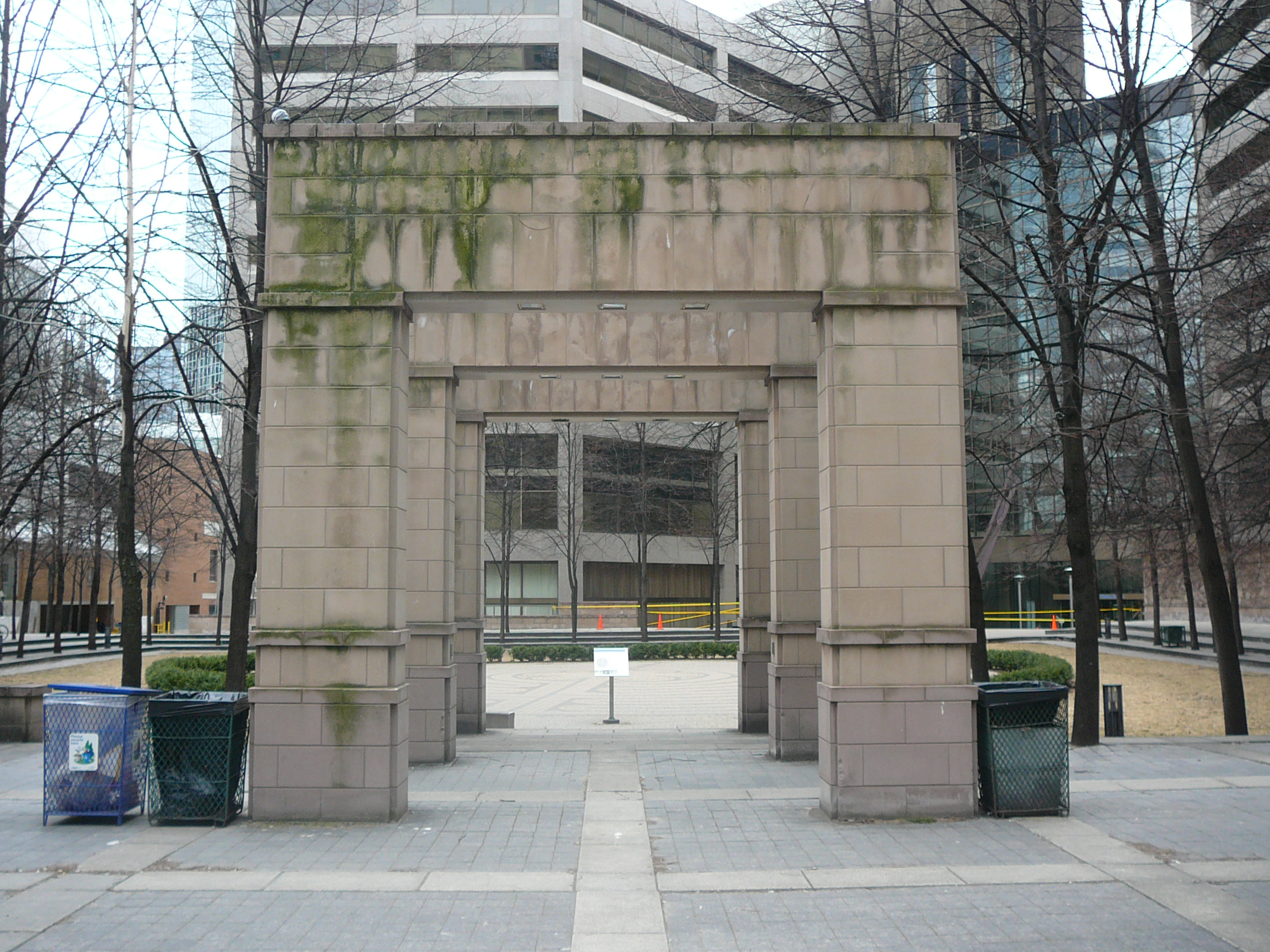 Trinity Square, Toronto, Canada. These arches are part of a well-hidden urban park area in wedged between some of the office buildings and The Eaton Centre downtown. It's quite an interesting space, with a fountain and plenty of sitting areas - a great space for office workers to eat a little lunch on a sunny day.